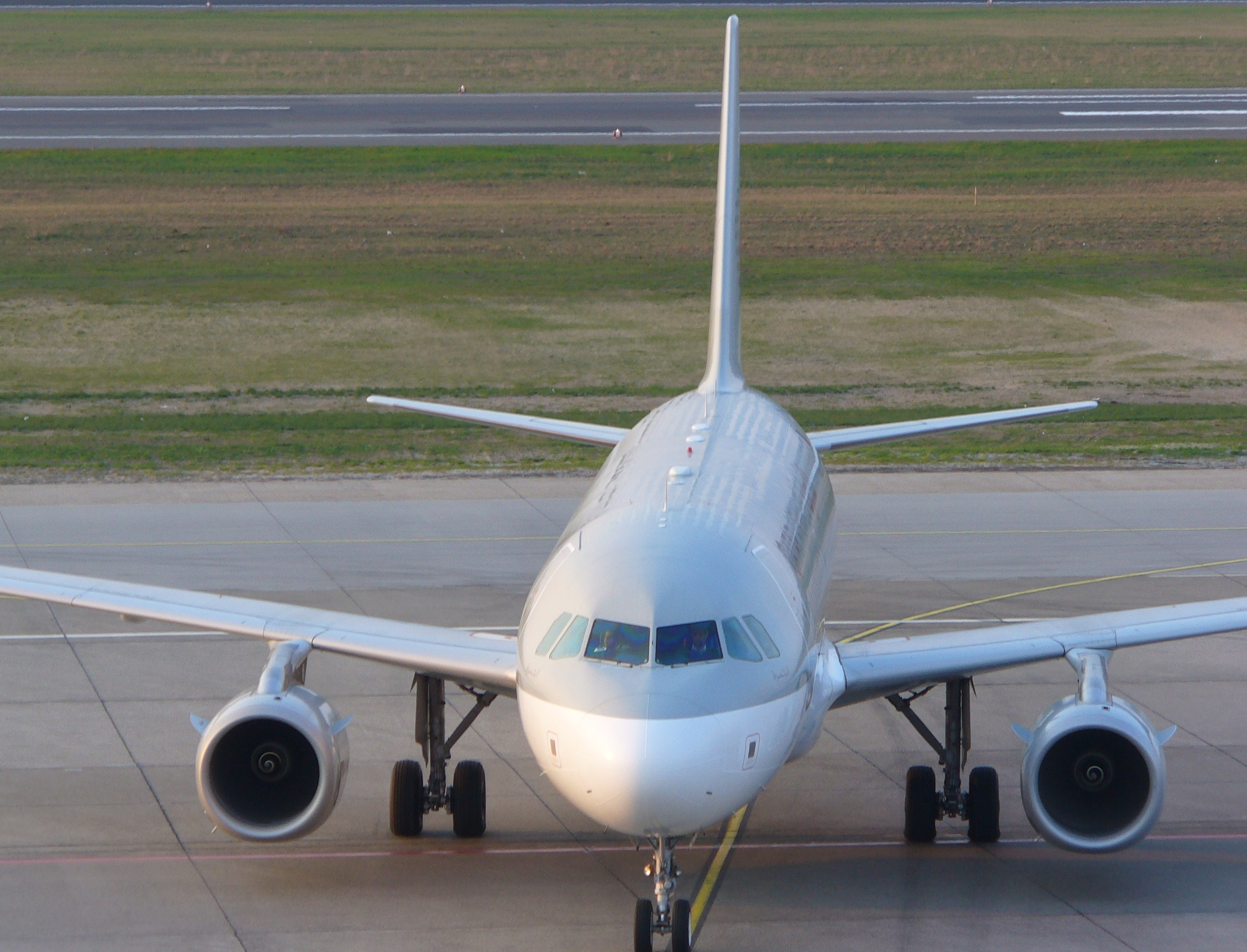 A Qatar Airways Airbus A319 (registered A7-CJB) pulls into a gate at Berlin Tegel Airport, completing Flight 55 from Doha.